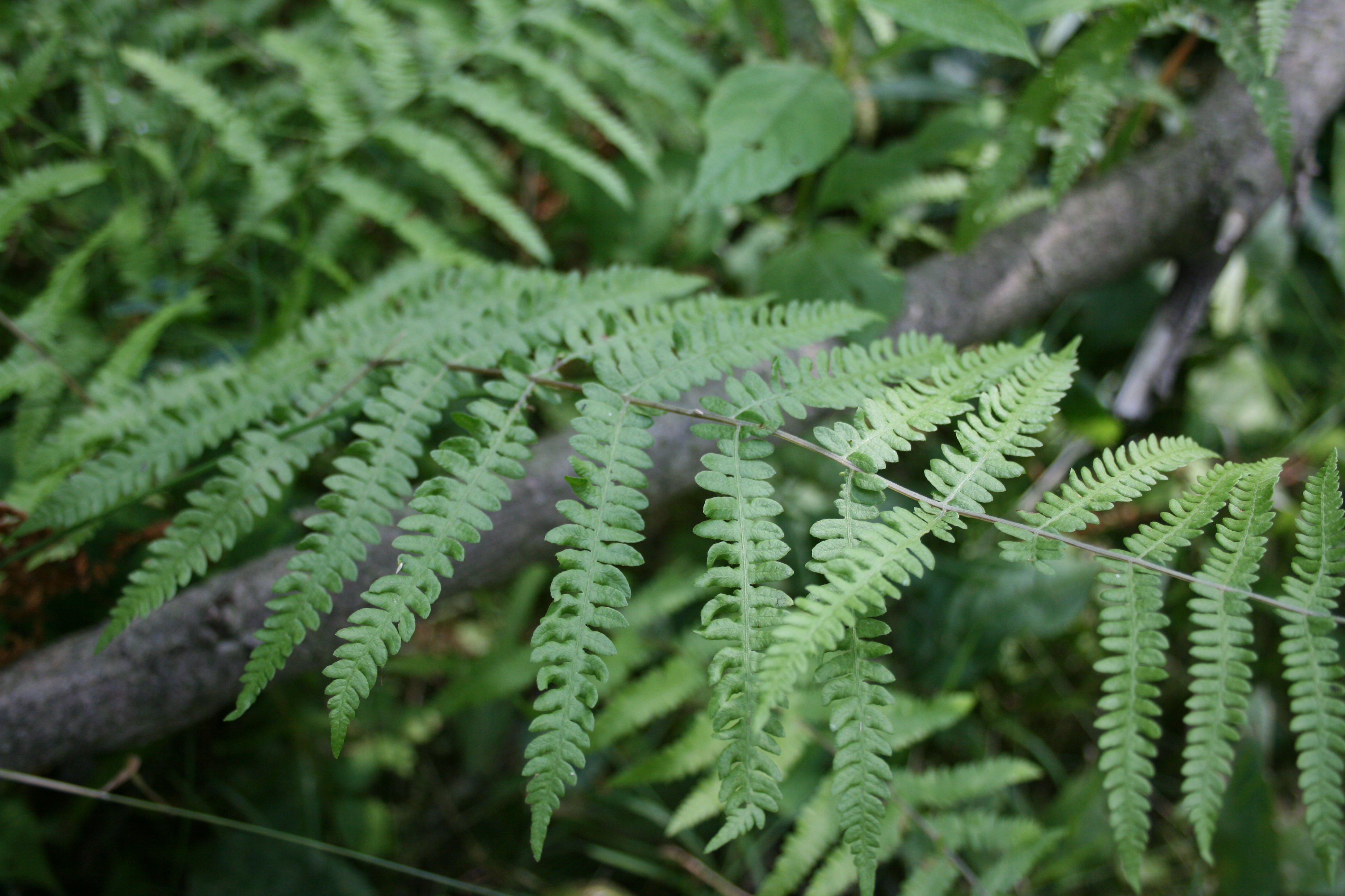 Cinnamon Fern (Osmundastrum cinnamomeum) taken at the Bicentennial Park in Portage, MI.